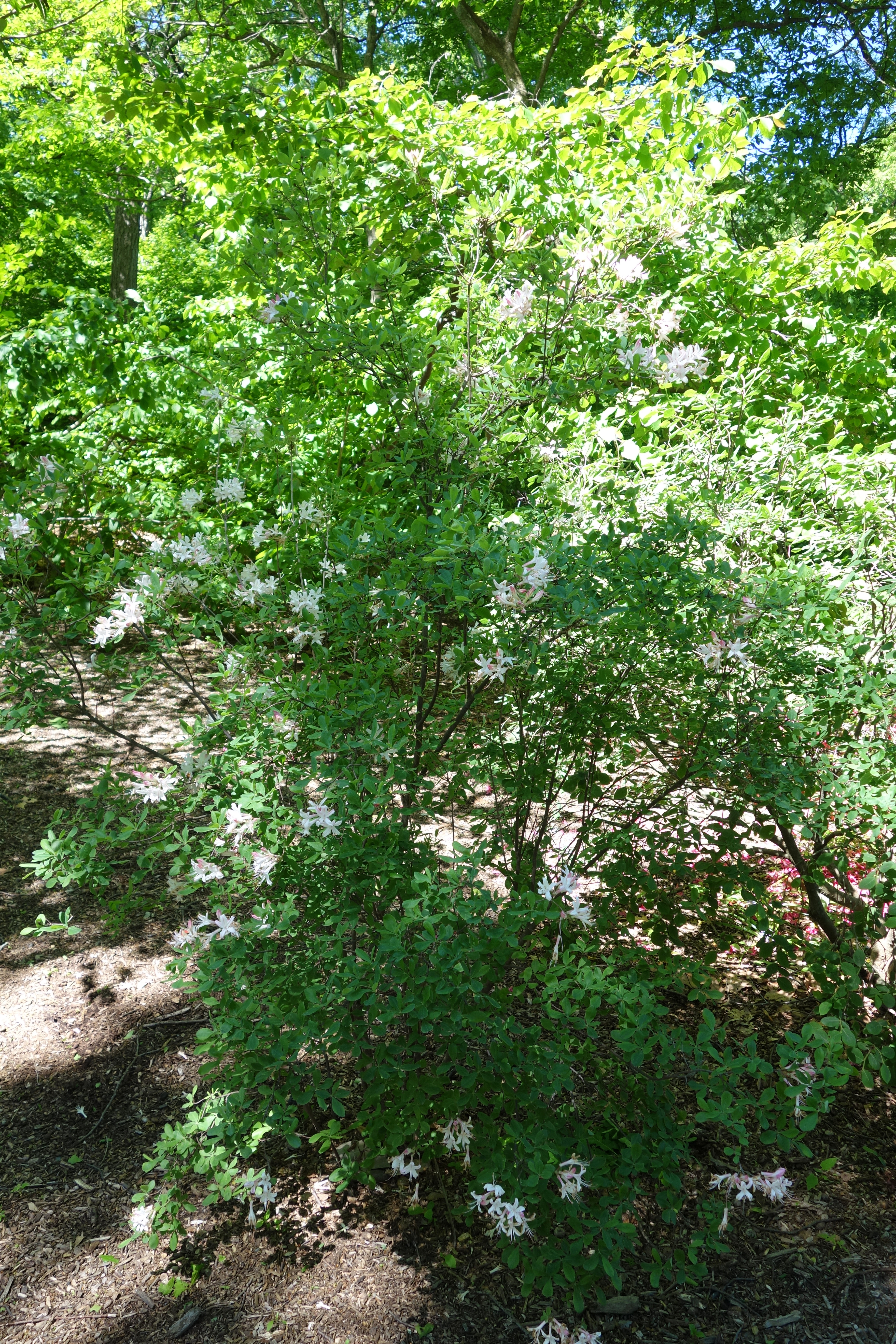 Botanical specimen in Arnold Arboretum, Jamaica Plain, Boston, Massachusetts, USA.